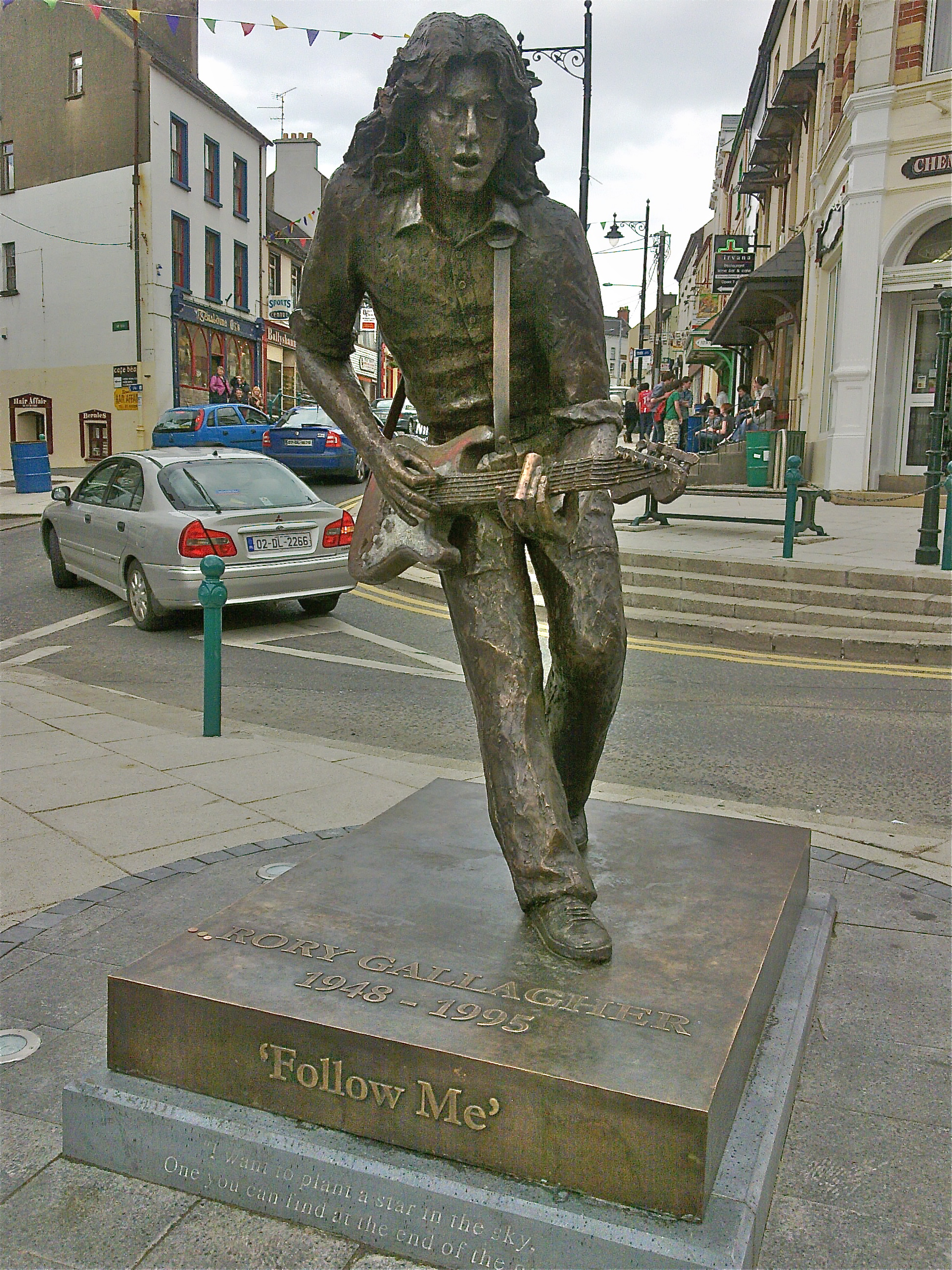 Statue commemorating the work of Rory Gallagher unveiled at the 2010 Rory Gallagher Festival in Ballyshannon, County Donegal.